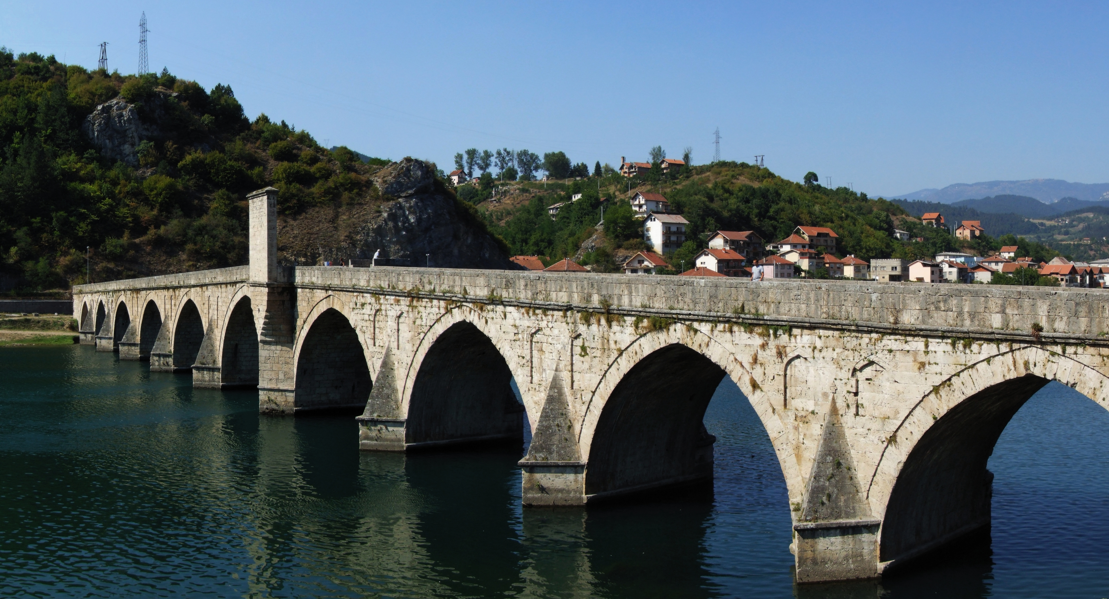 Mehmed Paša Sokolović Bridge in Višegrad, Republika Srpska